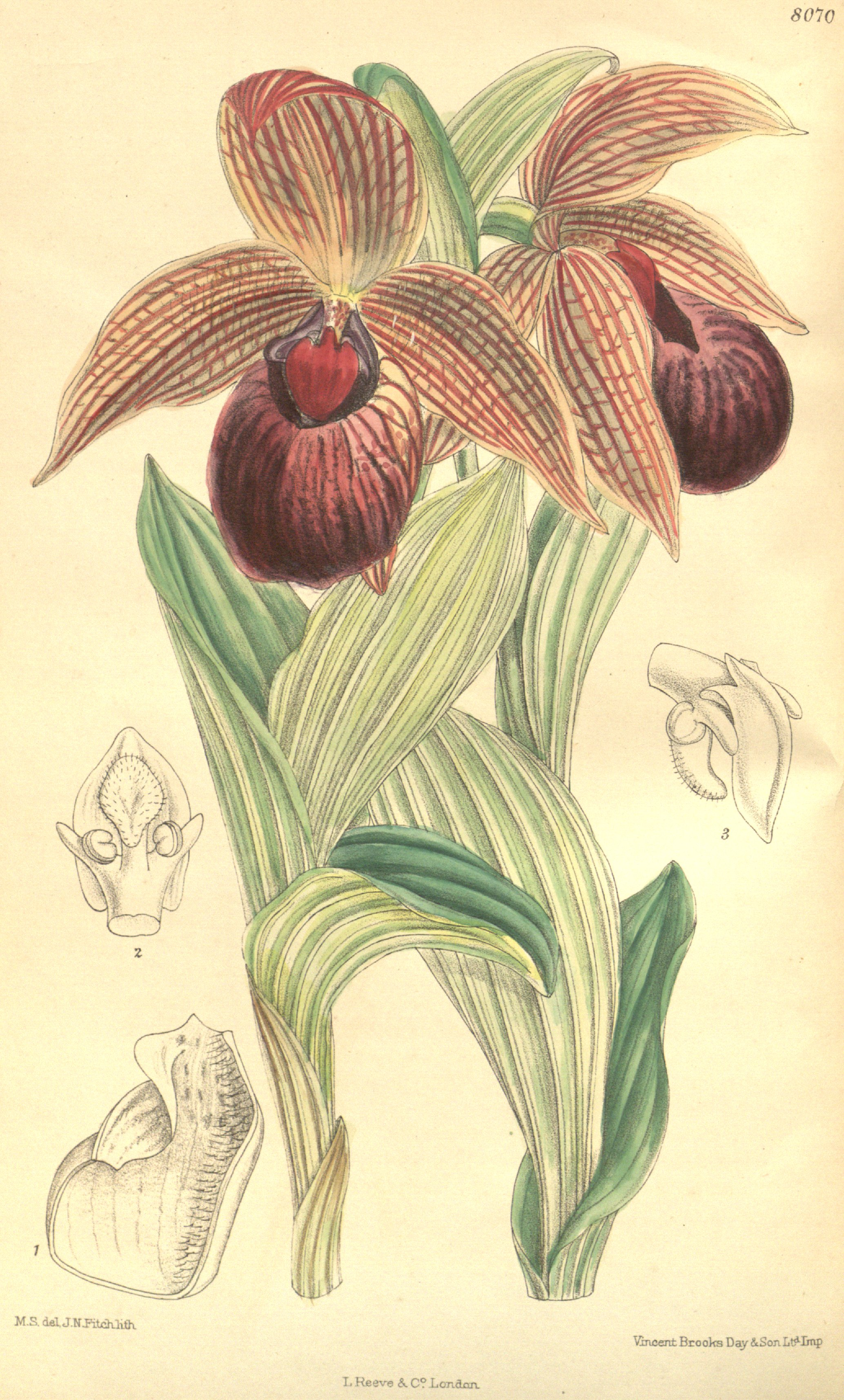 Illustration of Cypripedium tibeticum